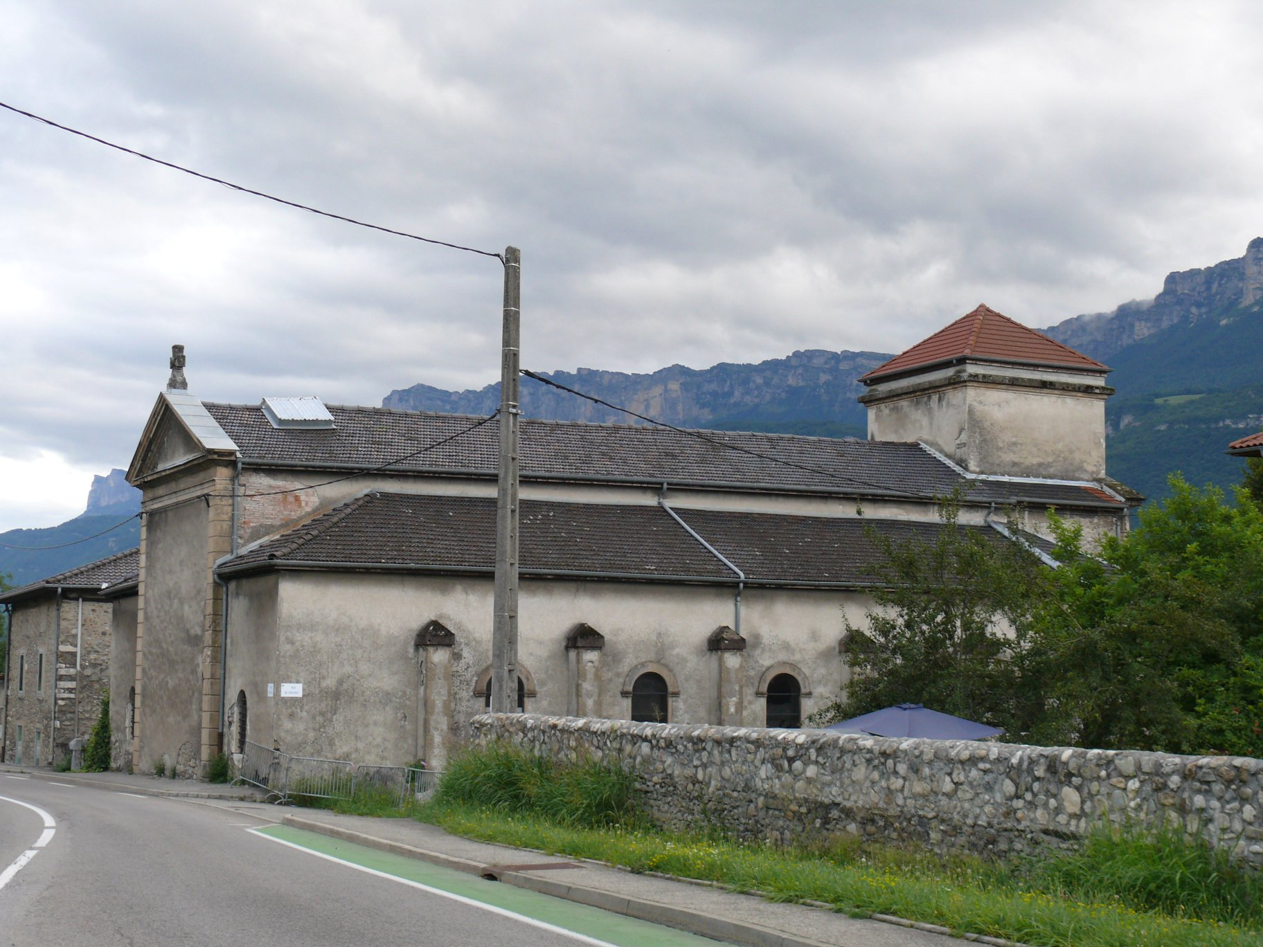 Our Lady's church of Pontcharra (Isère, Rhône-Alpes, France).